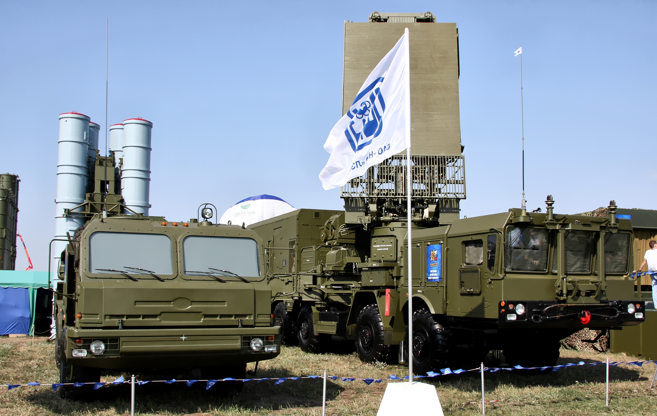 S-400 Triumf SAM next to a 96L6-radar at MAKS-2011.